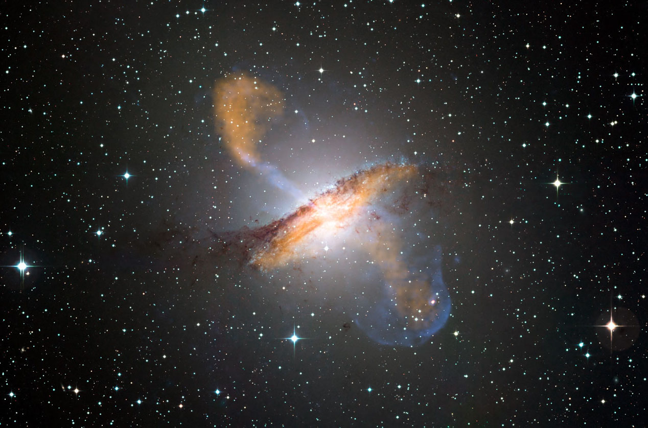 Colour composite image of Centaurus A, revealing the lobes and jets emanating from the active galaxy’s central black hole. This is a composite of images obtained with three instruments, operating at very different wavelengths. The 870-micron submillimetre data, from LABOCA on APEX, are shown in orange. X-ray data from the Chandra X-ray Observatory are shown in blue. Visible light data from the Wide Field Imager (WFI) on the MPG/ESO 2.2 m telescope located at La Silla, Chile, show the background stars and the galaxy’s characteristic dust lane in close to "true colour".